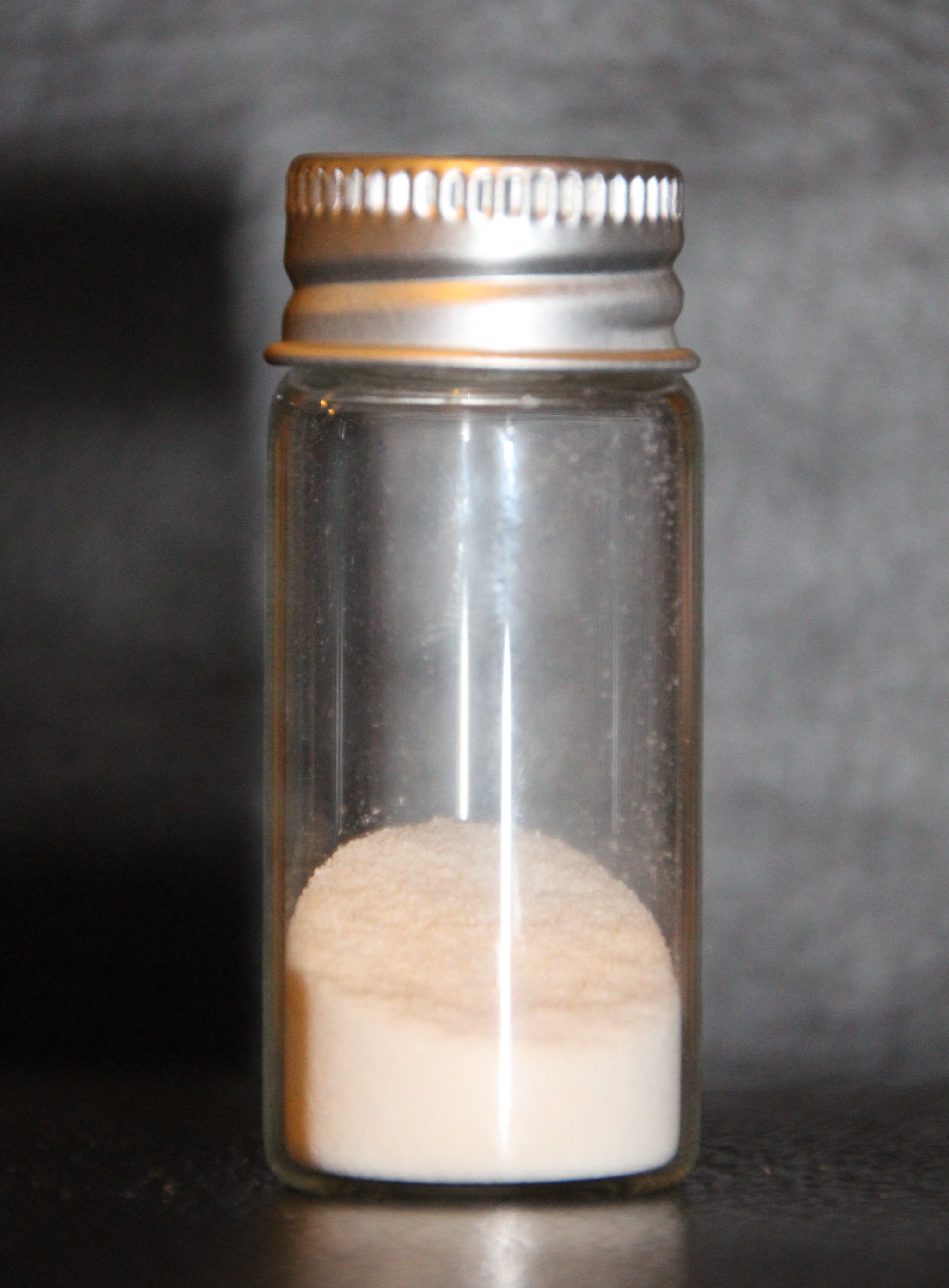 Sample of Carboxymethylcellulose